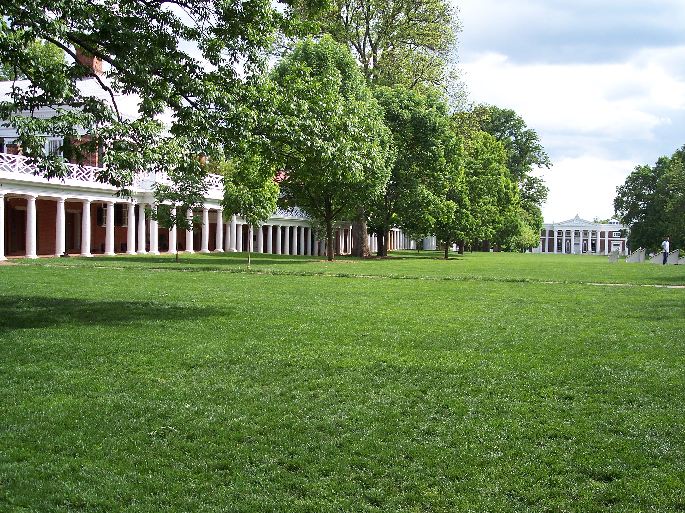 The Lawn at the University of Virginia